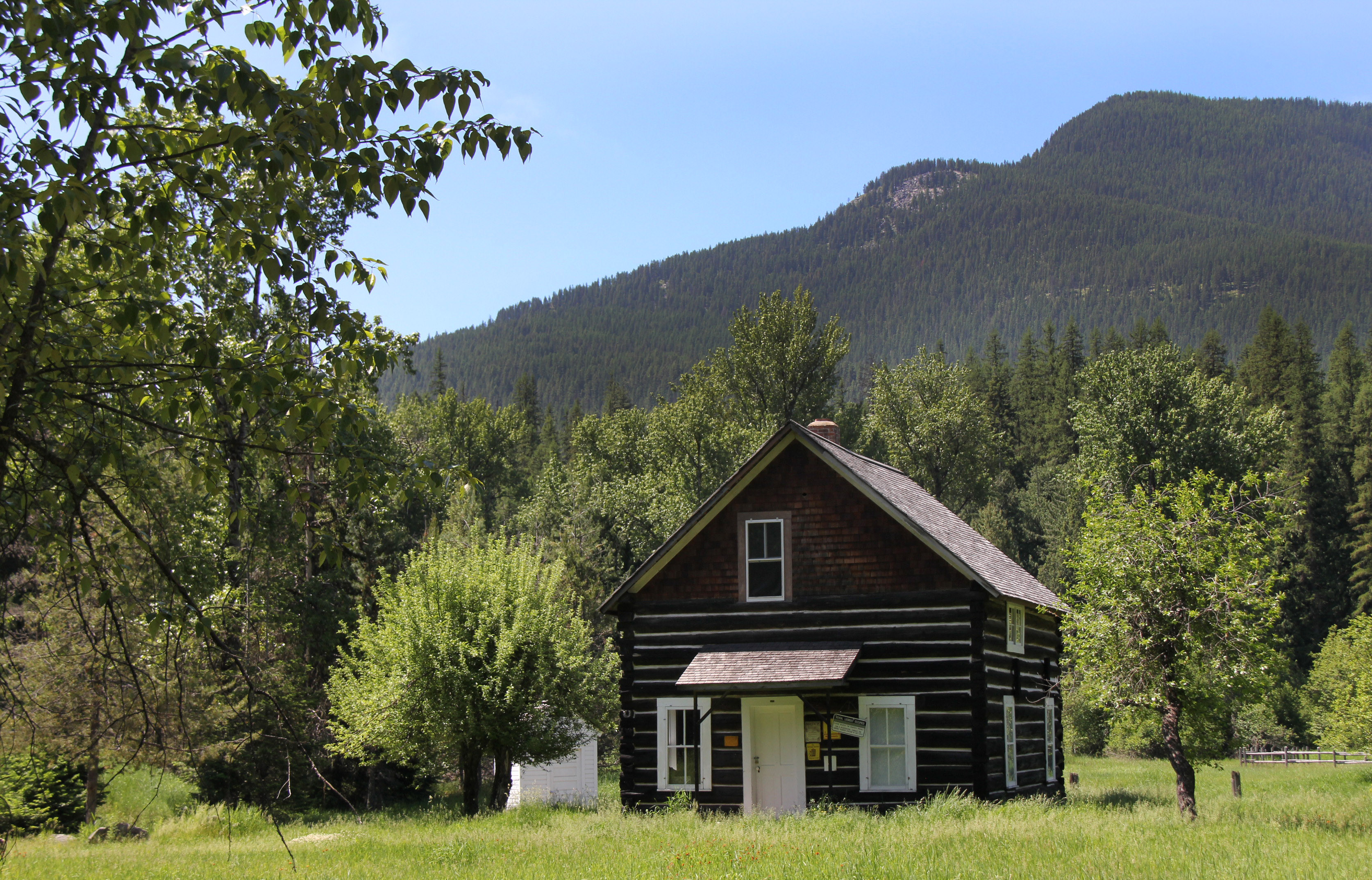 The Bull River Guard Station was built in 1908 as the Ranger's house and office. This structure was a primary ranger station from 1908 to 1920, surviving the 1910 fire. The cabin was home to Granville "Granny" Gordon (District Ranger), his wife and three daughters. When the 1910 fires roared thru the country, Mrs. Gordon prepared for the worst by soaking gunny sacks in a tub of water. If they had to escape the fire, they would wrap themselves in the gunny sacks and race to the Bull River to wait out the fire. As the fire closed in on the ranger station, it shifted direction and swept up Pilik ridge sparing their home. The cabin is a two story building, containing 700 square feet. It is equipped with period furniture including three full beds and two single beds including mattresses. It has a sitting room with chairs, a kitchen / dining room with a hutch, table and chairs, and electric range. It is heated with a forced air electric furnace, and contains cleaning supplies. The cabin is not plumbed for water and has an outdoor toilet. In the winter the cabin is normally plowed within 1 mile. The cabin can be reserved 3 days in advance of your stay by contacting the Ranger Station or Contact the National Recreation Reservation Service at 1-877-444-6777 or the cabin can be reserved 180 days in advance of your stay.